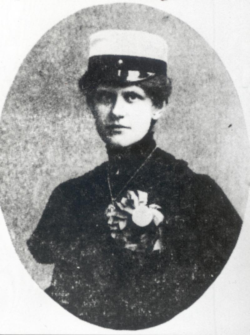 Photograph of Betty Pettersson (1838-1885), the first woman to study at a university in Sweden.